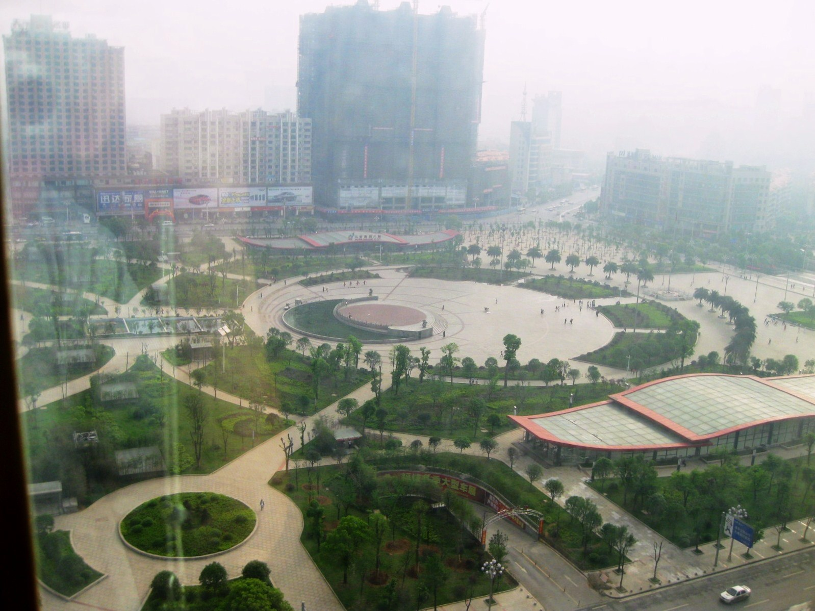 Wuling Guangchang (Wuling Square)